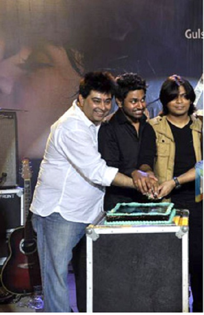 Jeet Gannguli with others at the live concert of 'Aashiqui 2'